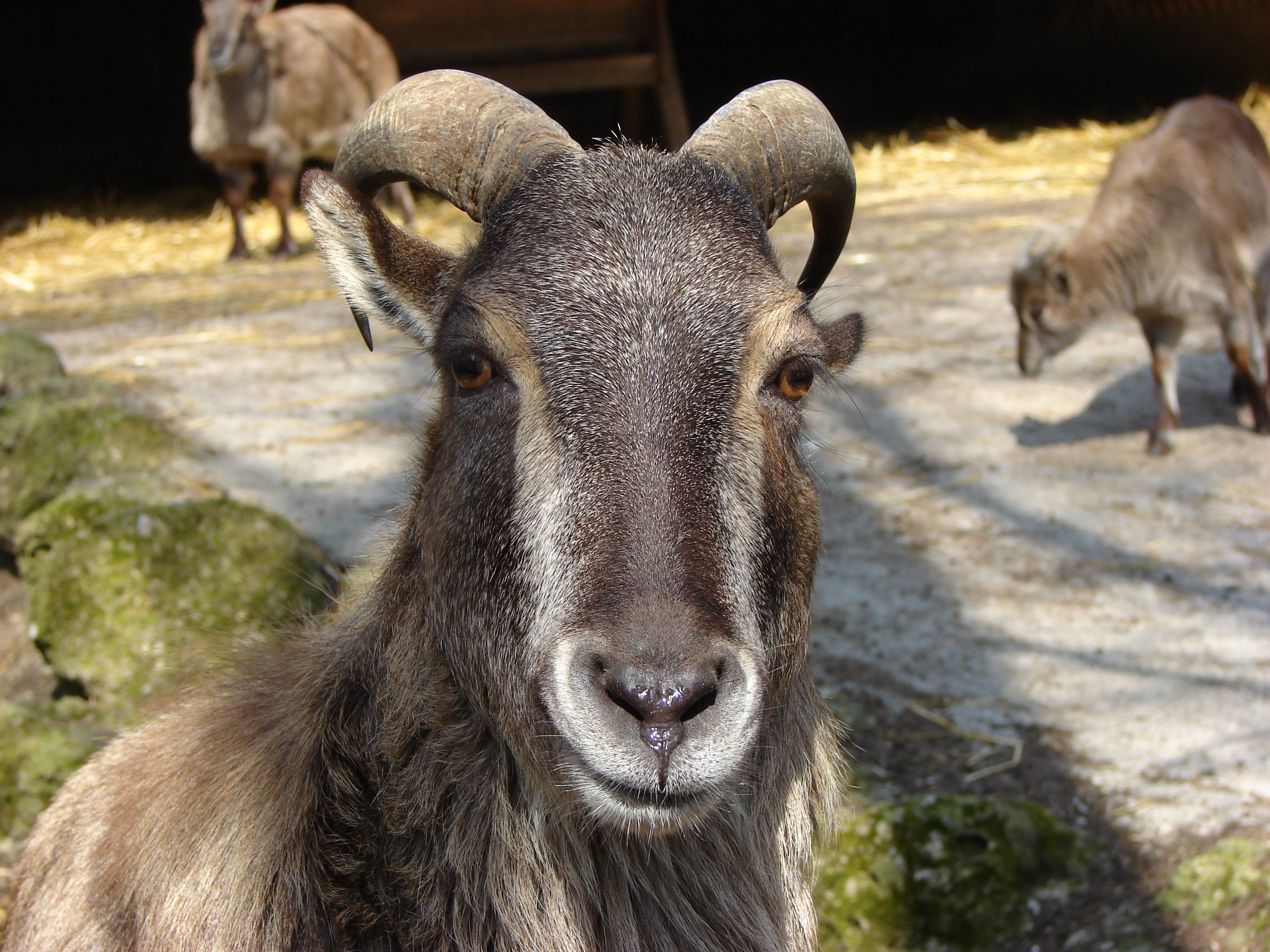 Himalayan Tahr in the zoo of Stadt Haag, Austria. Closeup of the head.